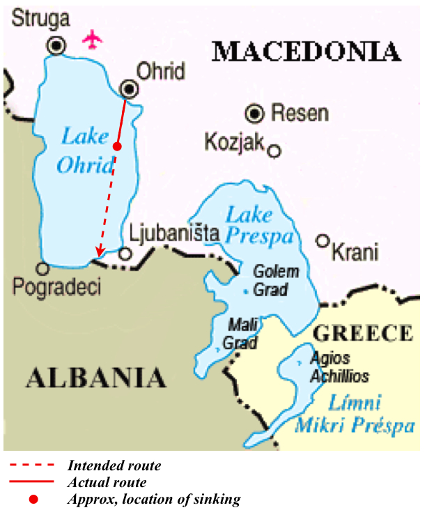 Route and approximate location of Sept. 9, 2009 Ohrid Lake boat sinking. Added to File:Ohrid Prespa lakes map.png.